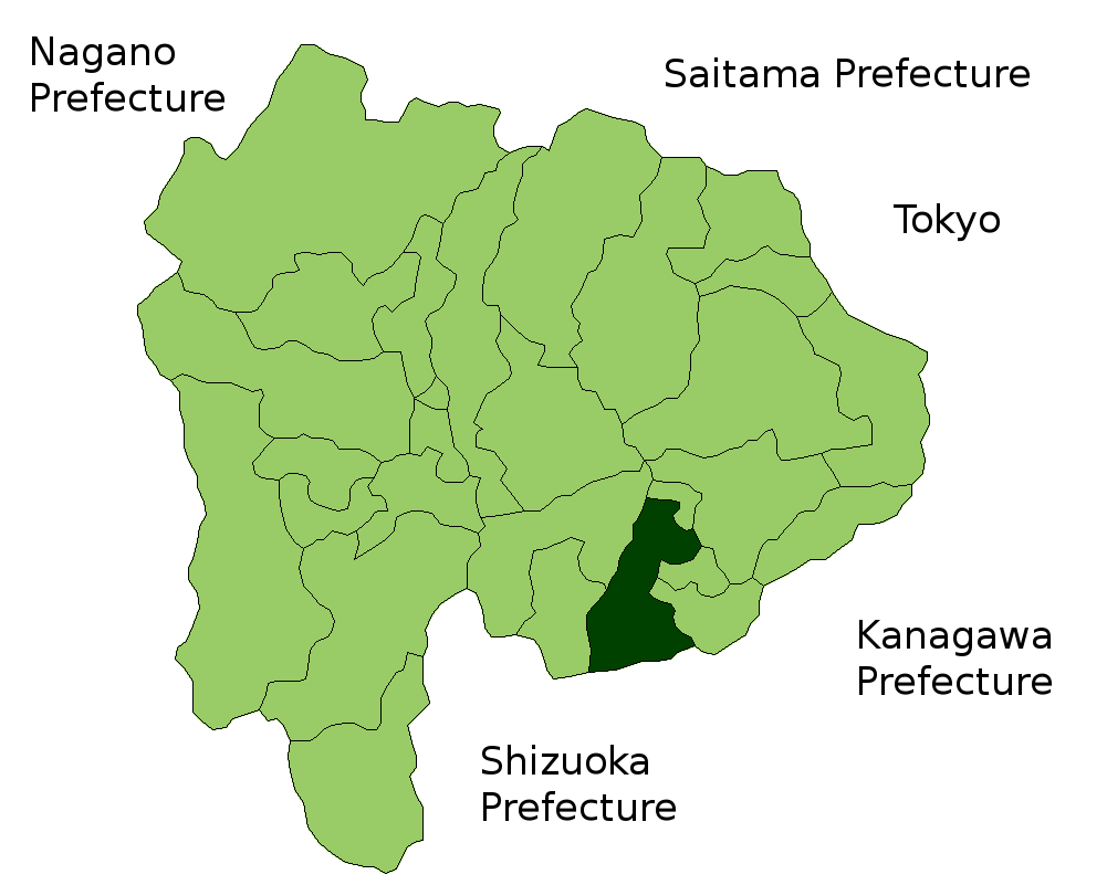 Location Map of Fujiyoshida in Yamanashi Prefecture, Japan